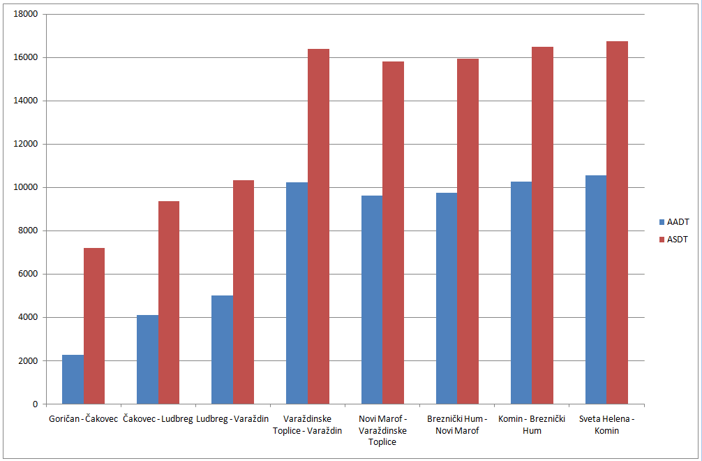 Croatian A4 motorway AADT/ASDT figures (2009) by Hrvatske ceste